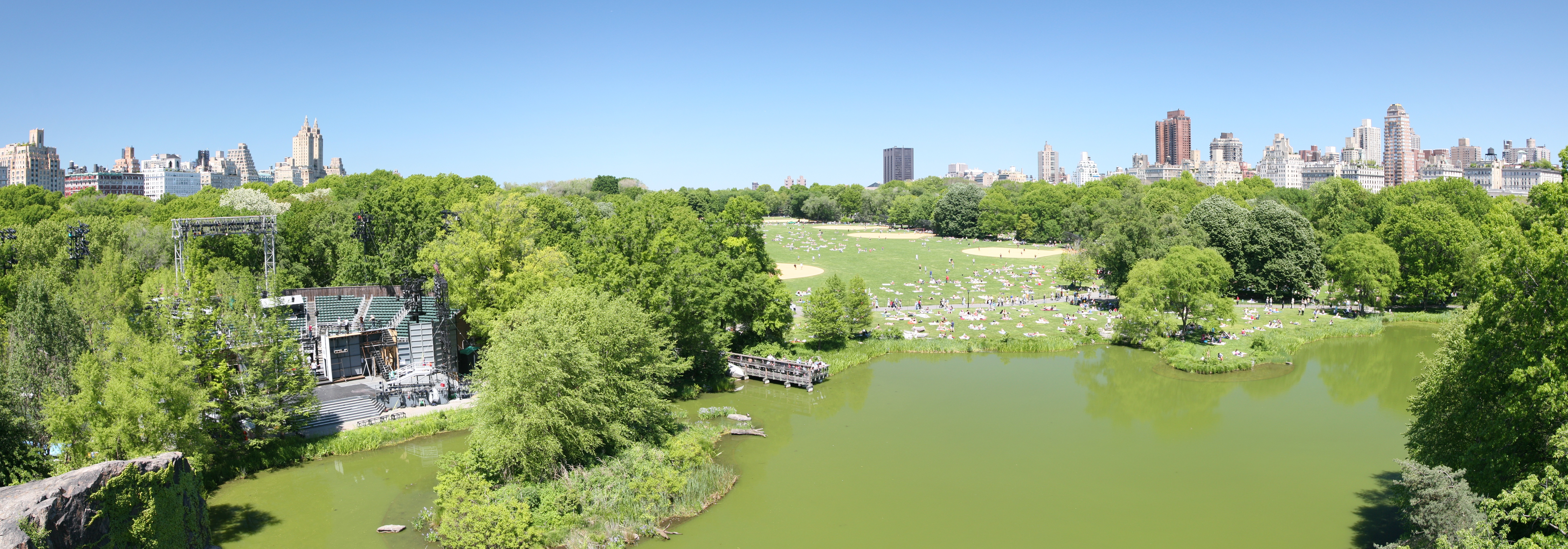 Turtlepond in Central Park in Manhattan, New York City, USA This image was created with Hugin.